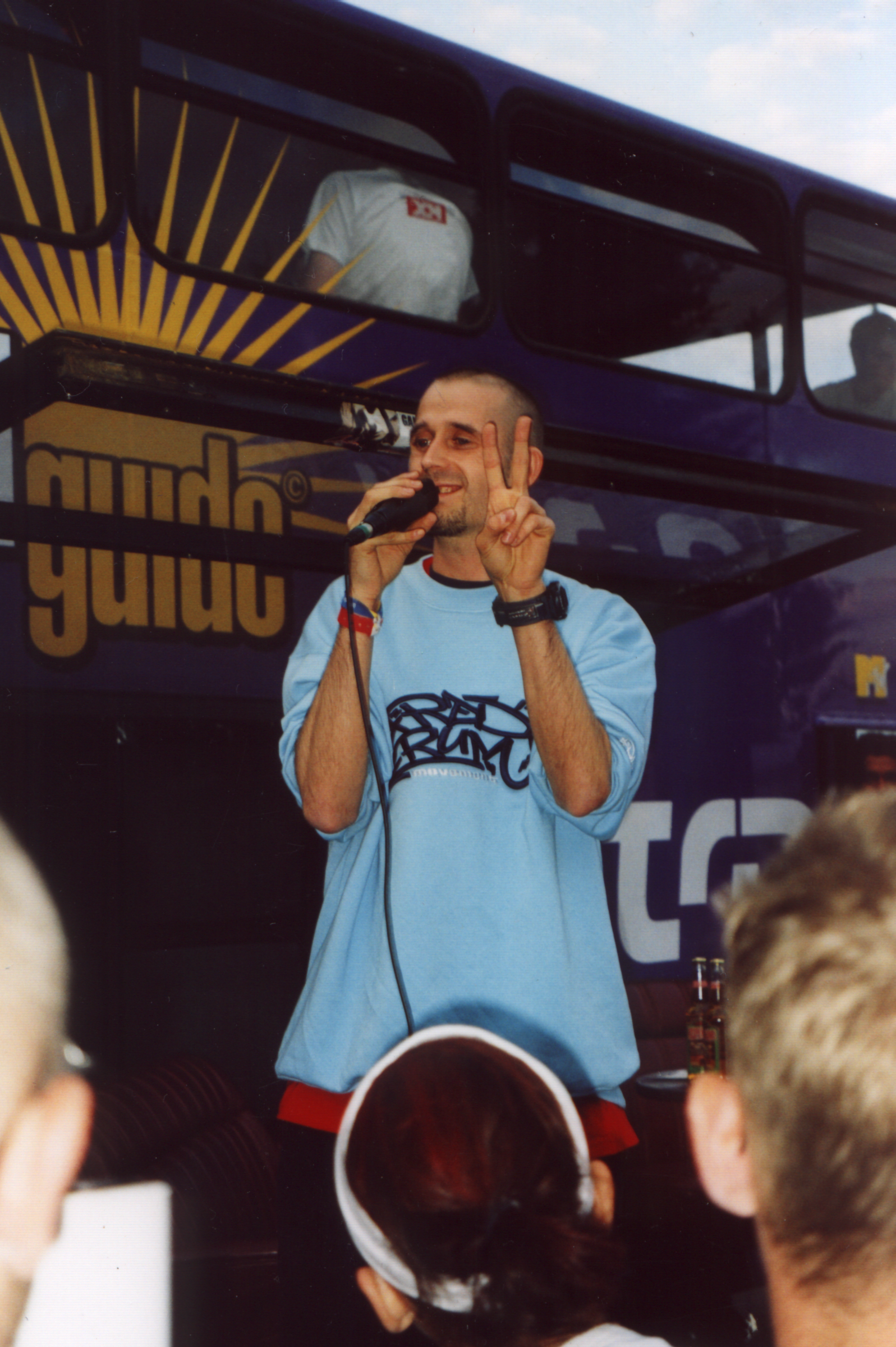 German Rapper Spax at the Splash Festival 2000 in Chemnitz